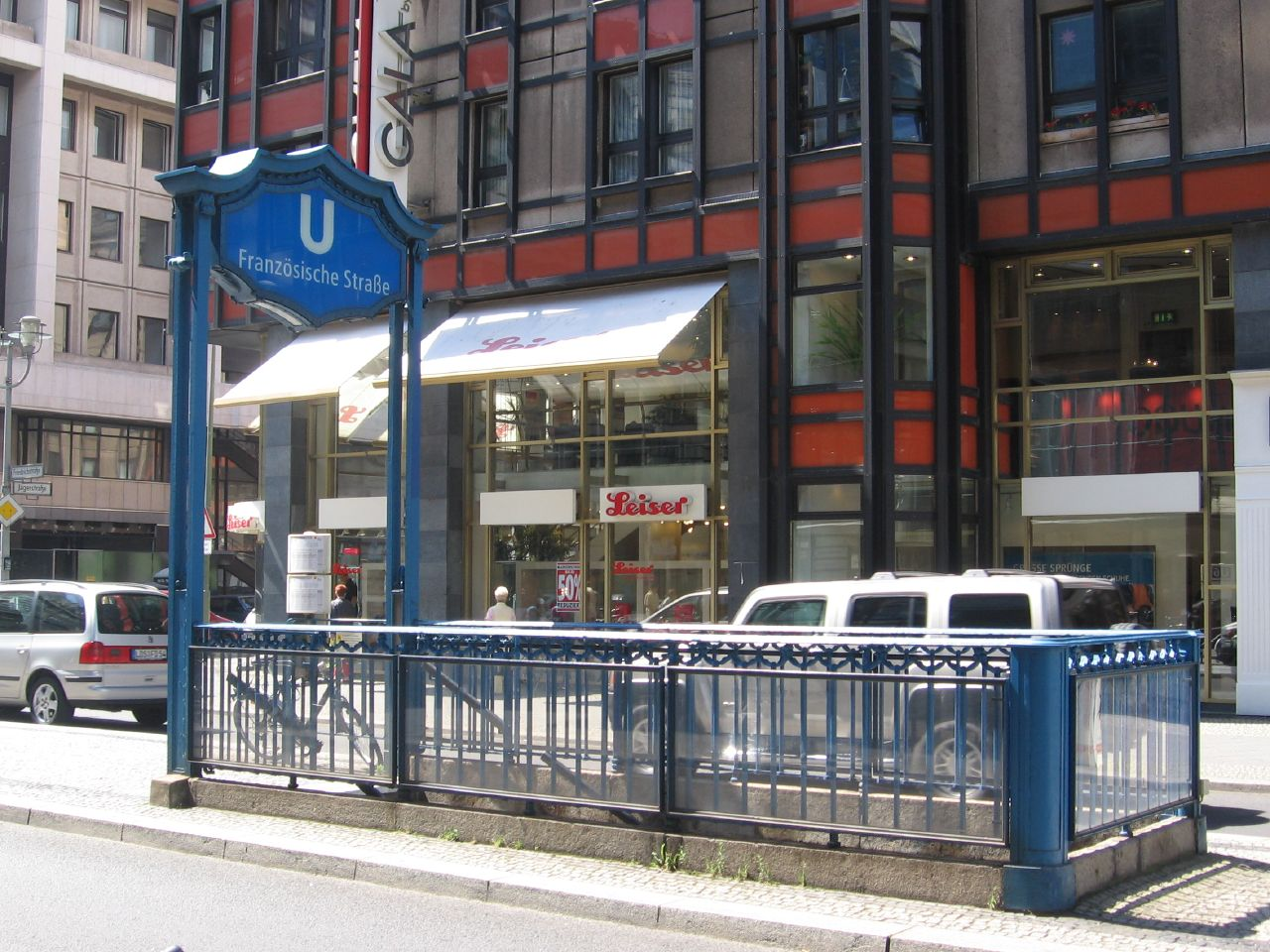 Entrance of Berlin U-Bahn station Französische Straße